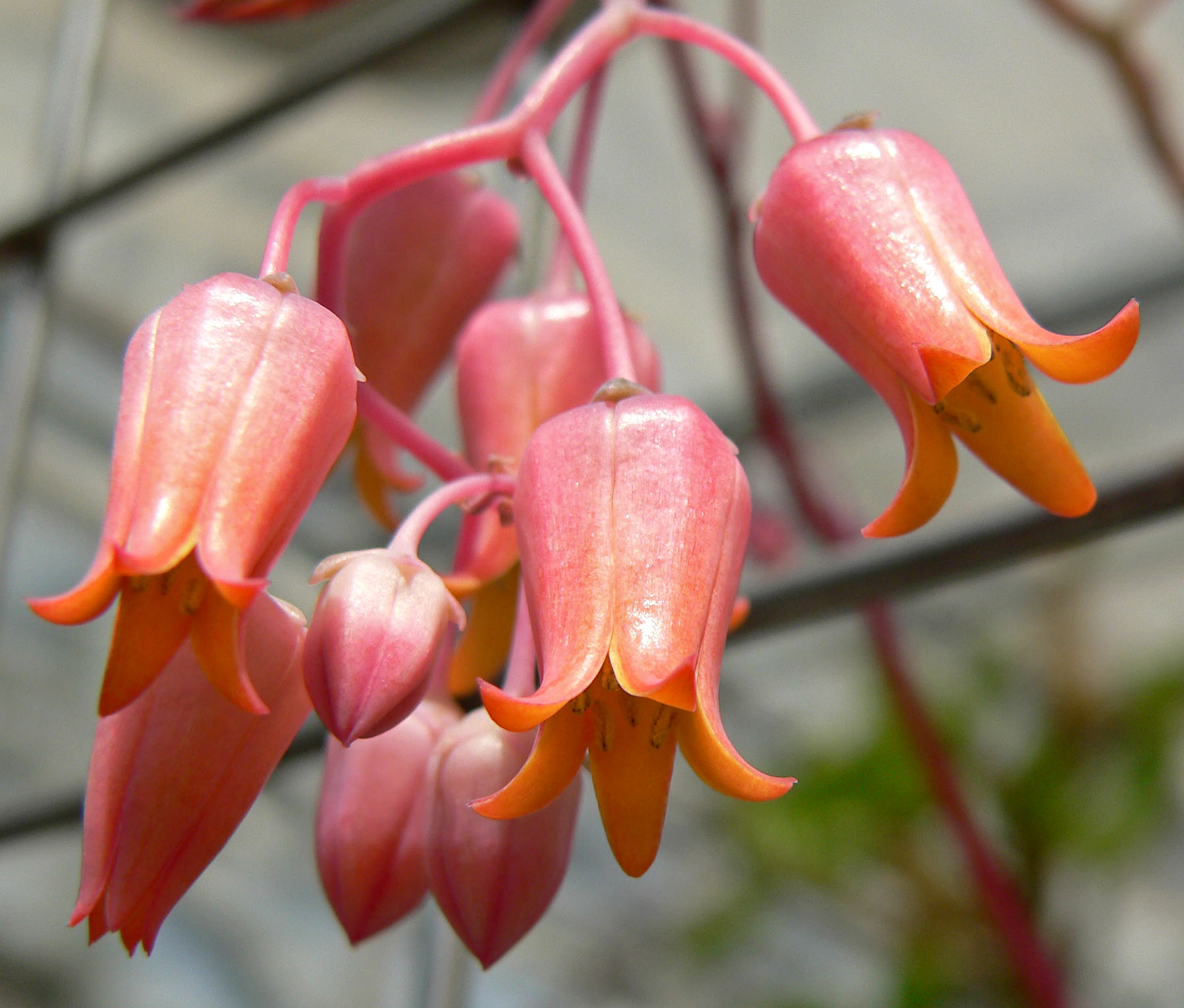 Echeveria lilacina at the University of California Botanical Garden, Berkeley, California